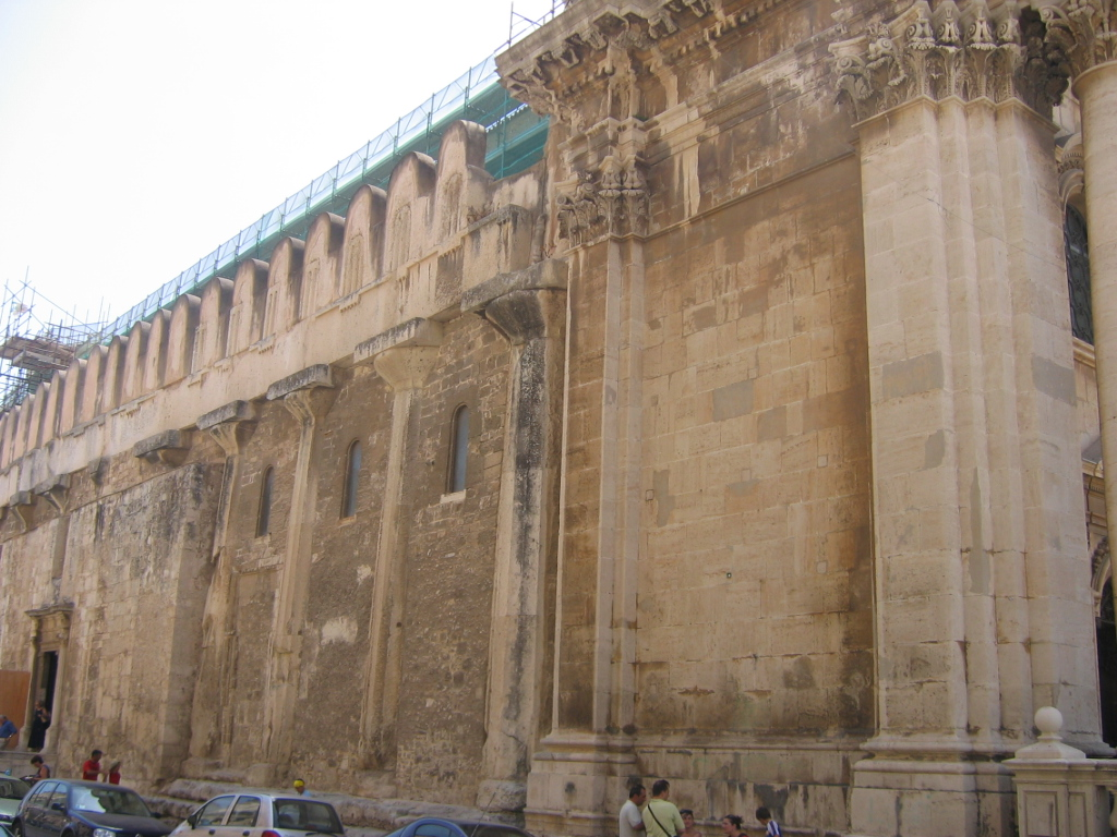 Duomo (cathedrale) de Syracuse, Italie, Sicile.